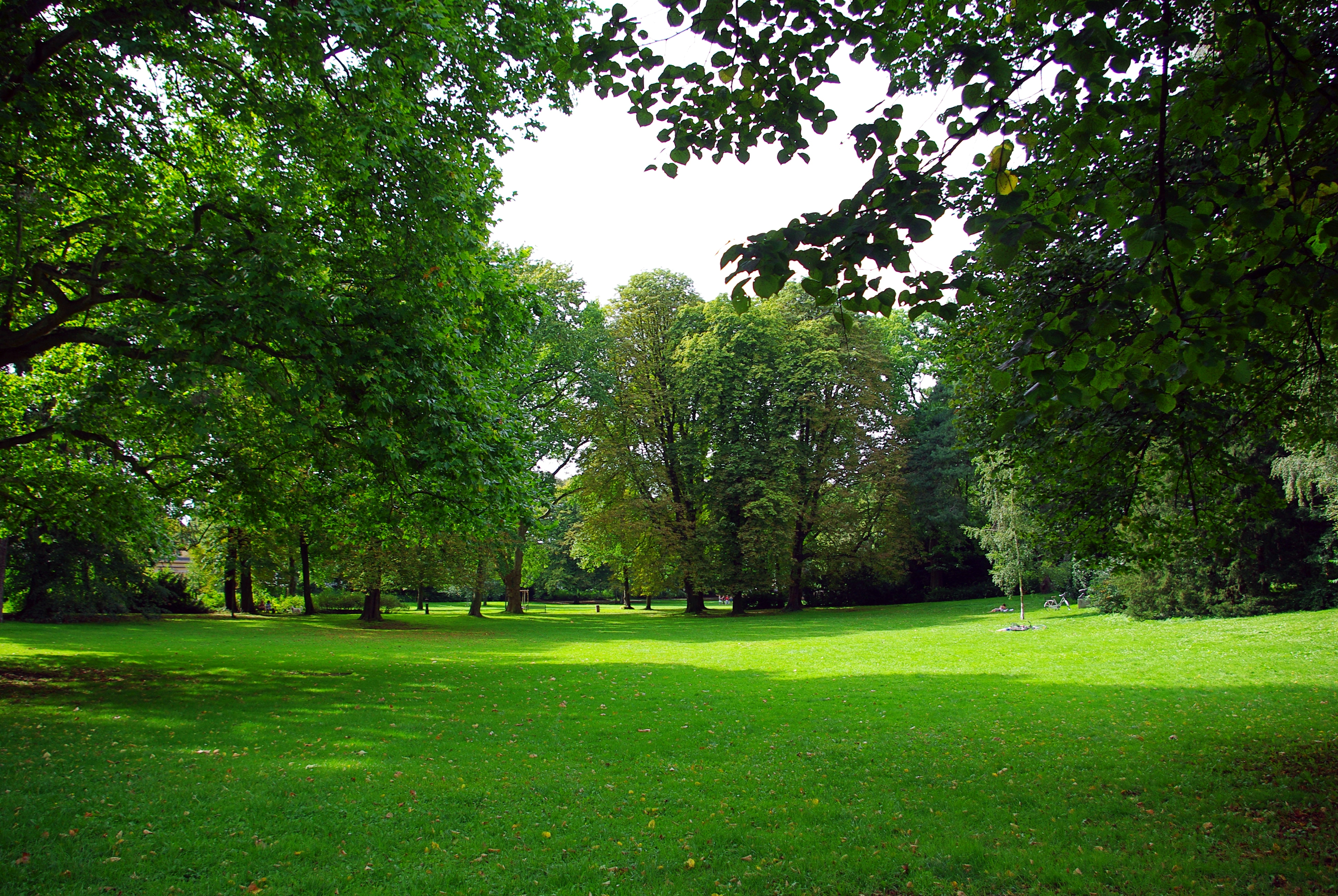 Südpark, Cologne-Marienburg